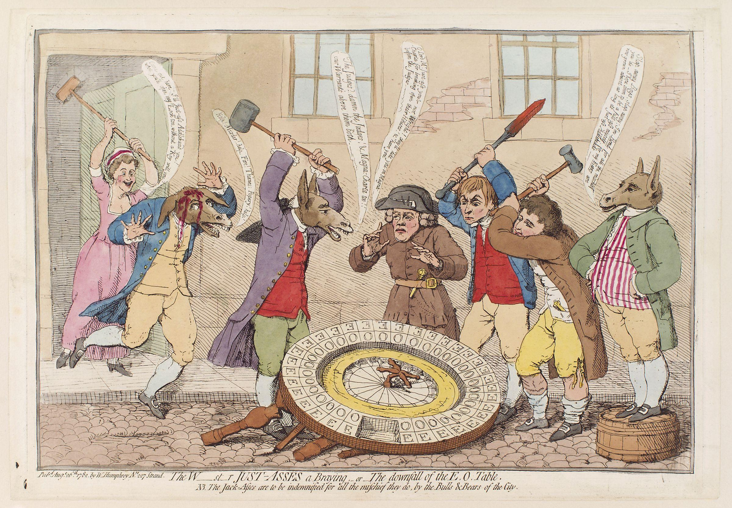 The W(estminster) just-asses a braying - or - the downfall of the E. O. table, by James Gillray (died 1815), published 1782. Caricature of suppression of an "E-O" or "Even-Odd" wheel used for gambling, a precursor of the modern roulette wheel. All images in this batch have been confirmed as author died before 1939 according to the official death date listed by the NPG.